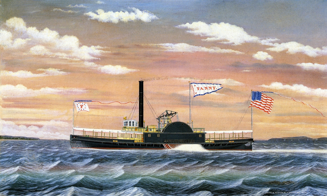 Fanny, steam tug built 1863, oil on canvas by James Bard.